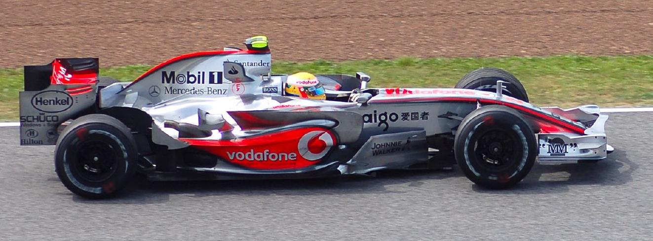 Lewis Hamilton driving for McLaren at the 2007 Spanish Grand Prix.